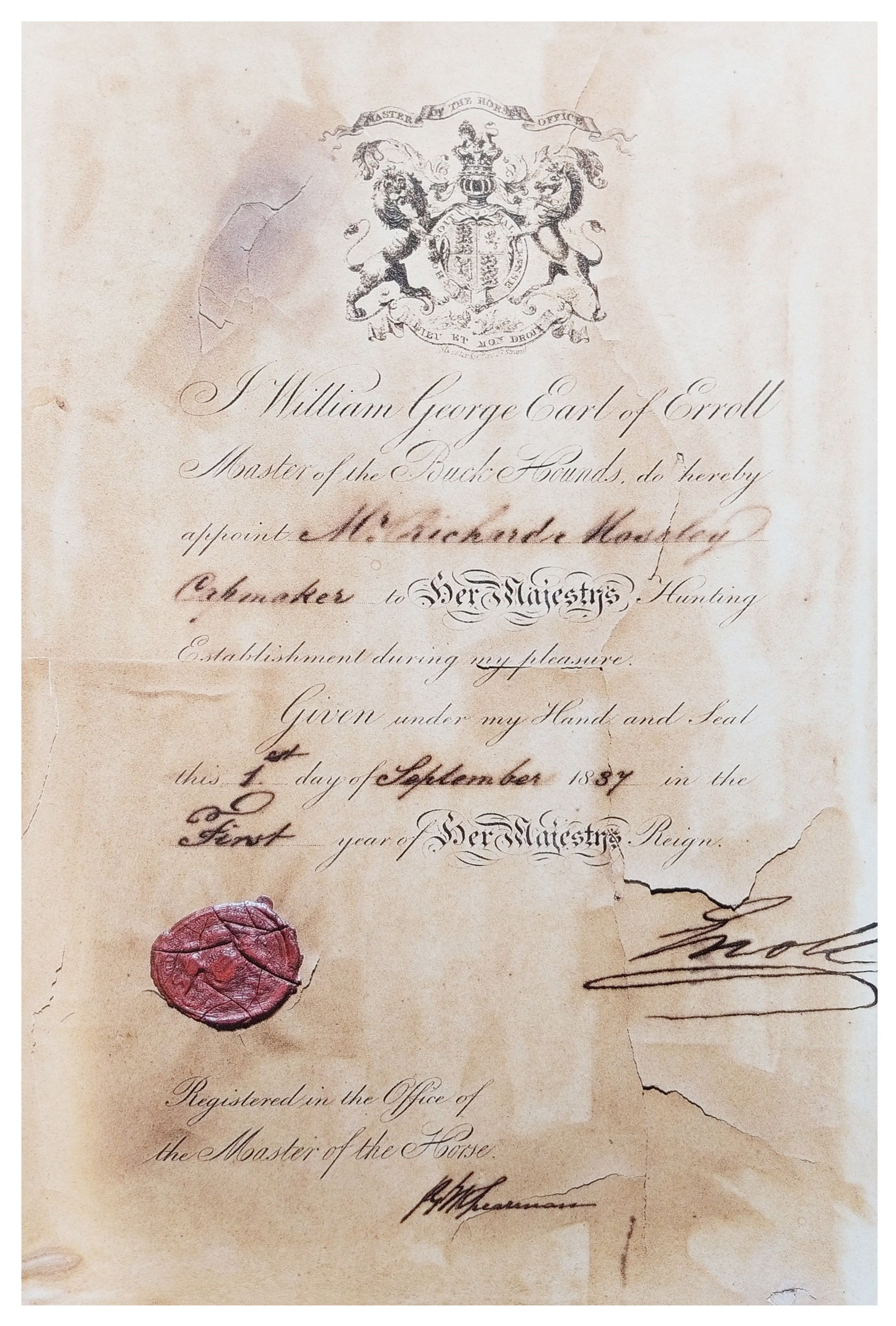 Original warrant granted by Queen Victoria to Richard Moseley of Hawkes, Moseley & Co. in 1837 to supply her Hunting Establishment.